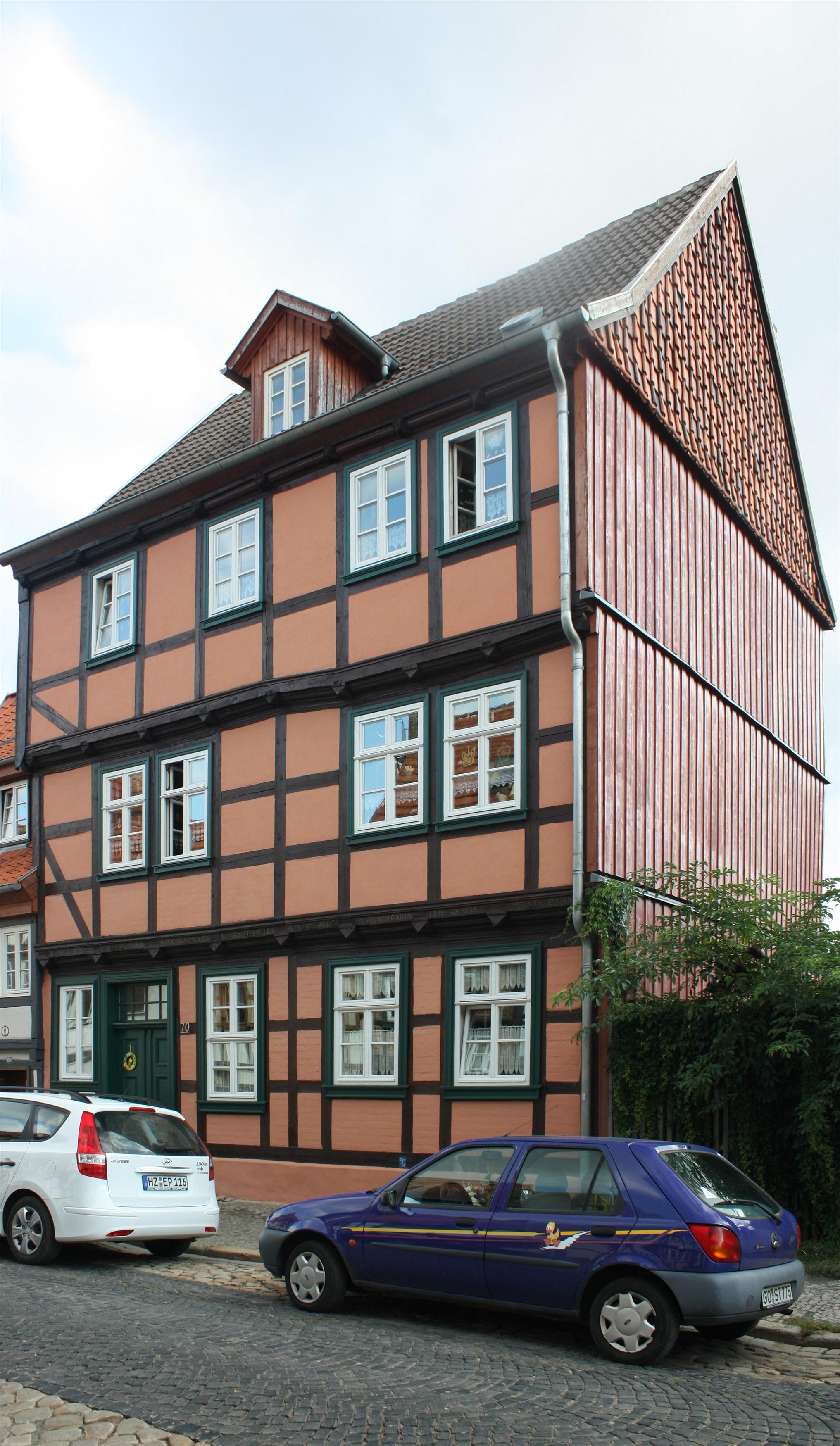 This is a photograph of an architectural monument.It is on the list of cultural monuments of Quedlinburg Augustinern 70 in Quedlinburg